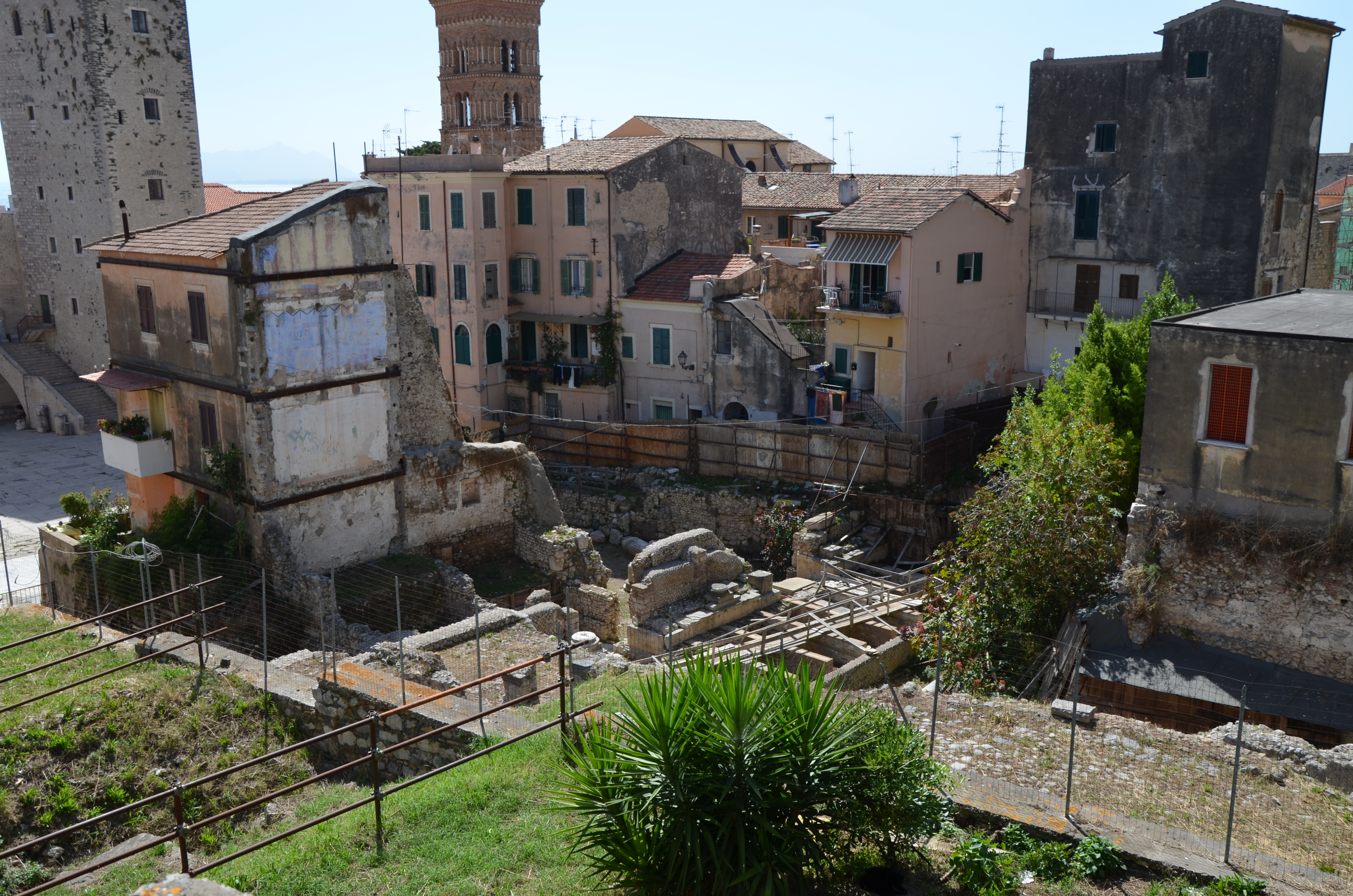 The area of the Roman Theatre built during the 1st century BC, Terracina, (Anxur), Terracina, Italy